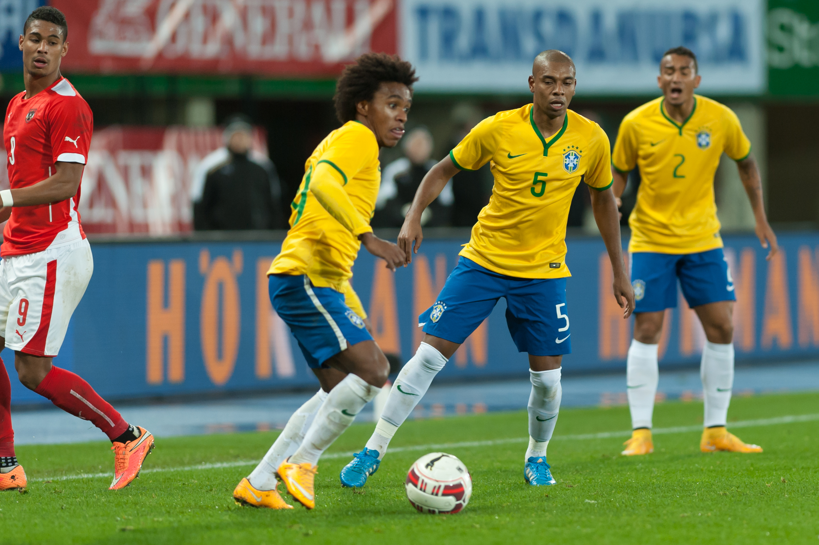 International Friendly Austria - Brazil November 18, 2014: Rubin Okotie, Willian, Fernandinho, Danilo